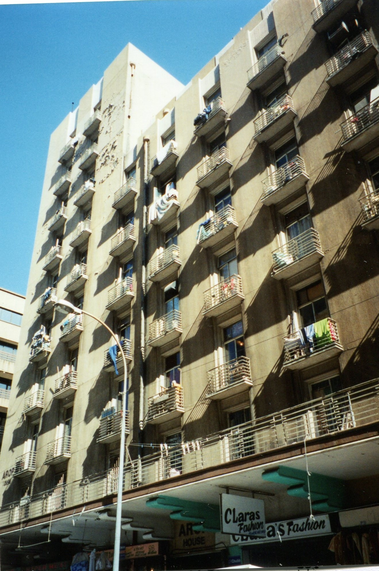 The Arop House in Von brandis str Johannesburg. This building was erected in 1934 but is now in a delibilated state. It is tagged as one of the buildings with historical and heritage significance by the city of council and JHF